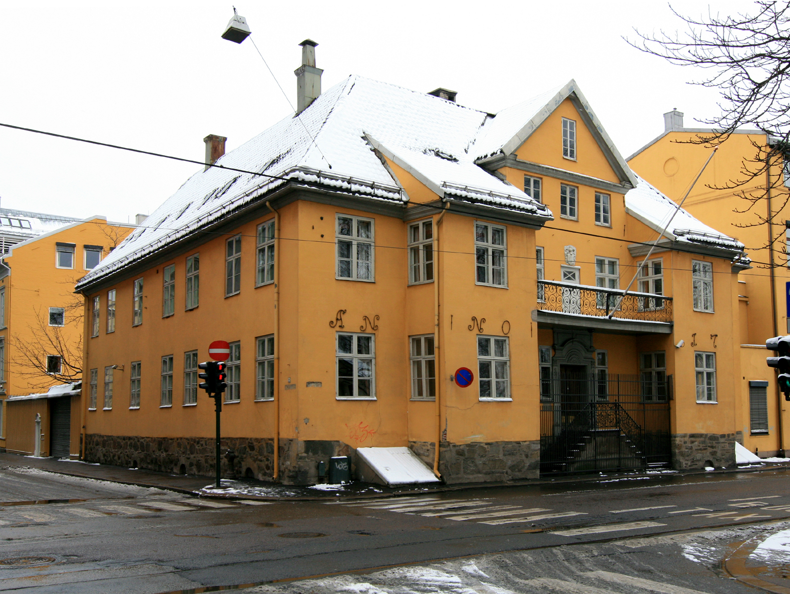 Treschowgården, Fred Olsens gate 2, Oslo. Built 1710. Rebuilt several times; last in 1919 by Ole Sverre for Fred Olsen Lines. Protected by law.